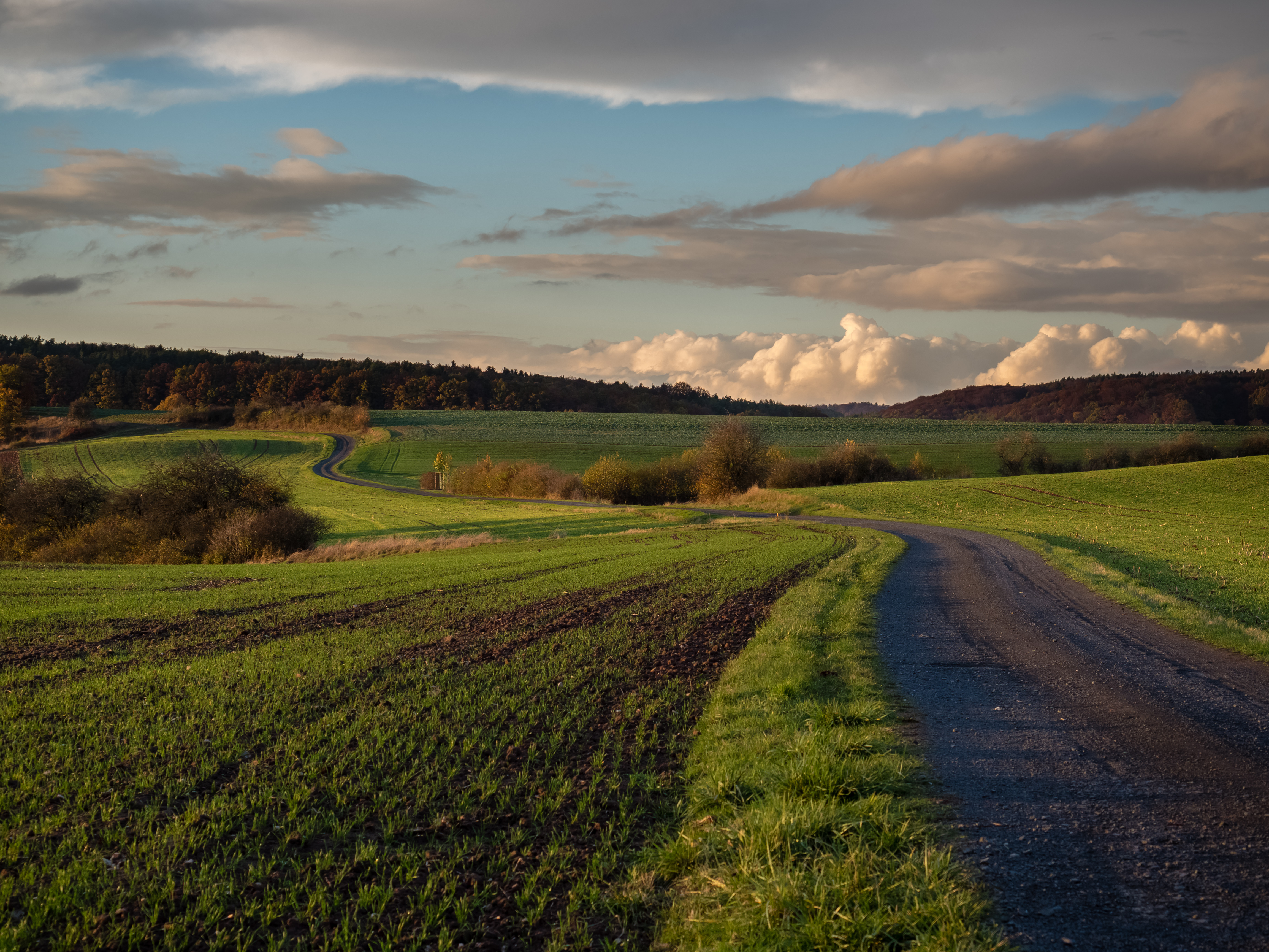 Fields between Kirchlauter and Neubrunn in the Haßberge Mountains